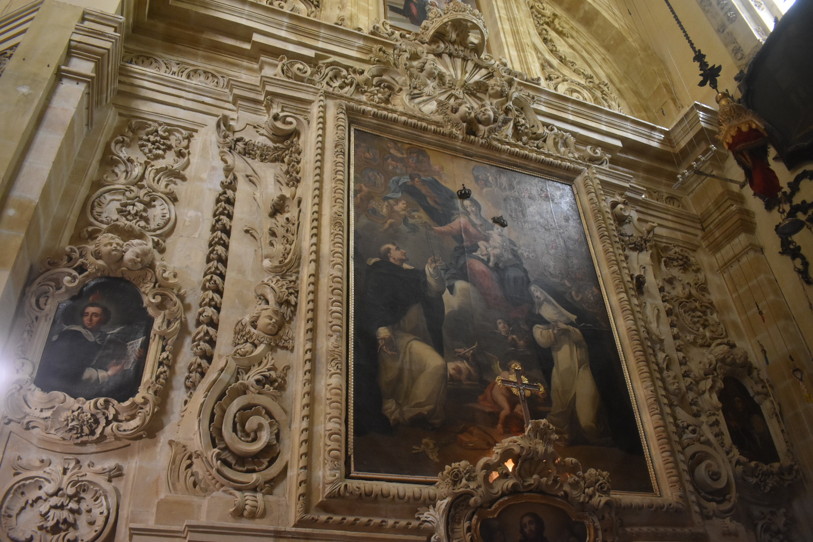 Several remains and objects from the old church of Xemxija